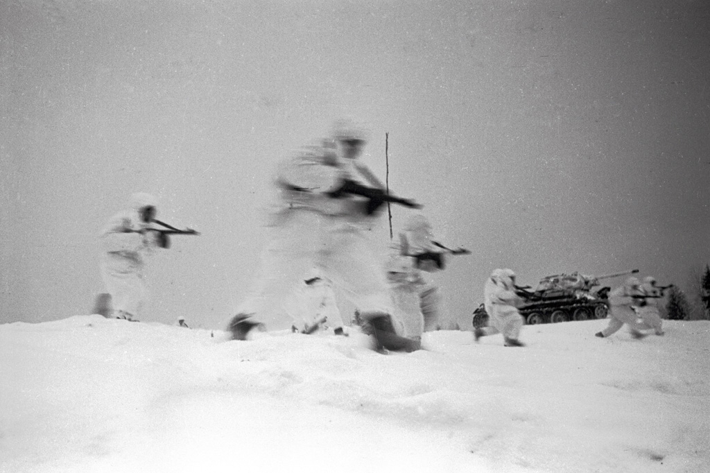 “An attack”. Sumbachine-gunners in camouflage cloaks rushing into attack. A battle for Staritsa. The Kalinin Front.